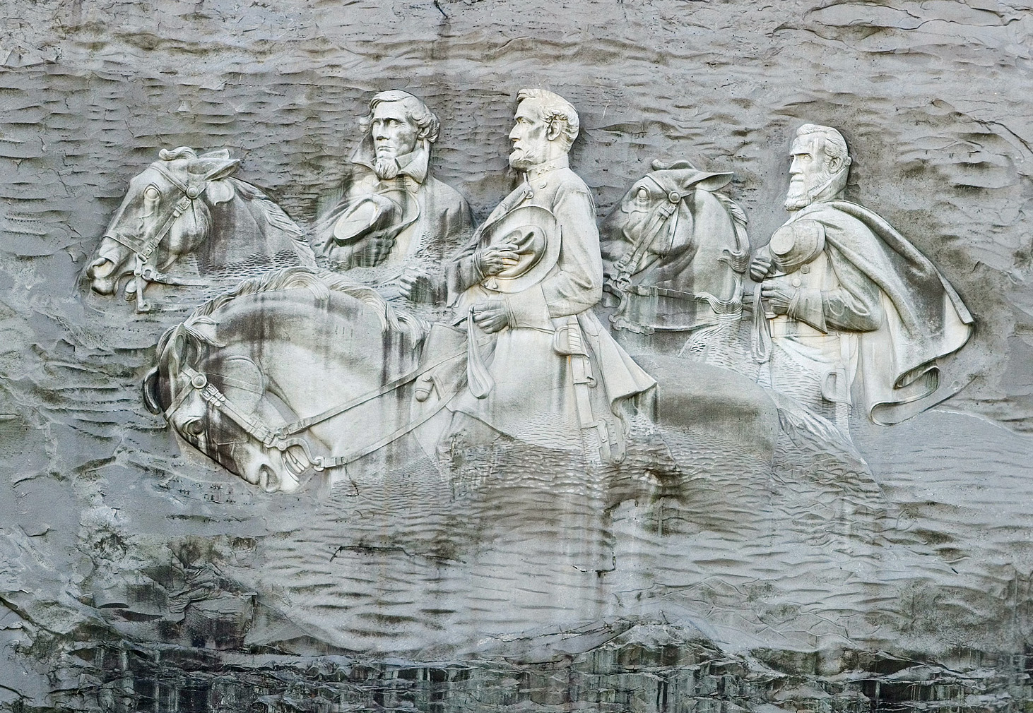 Cropped giant image at